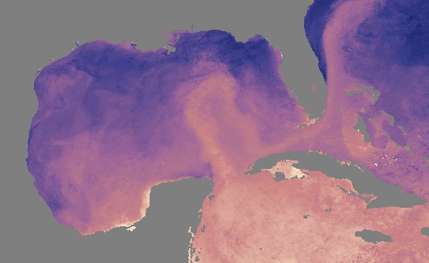 The Loop Current pushes up into the Gulf from the Caribbean Sea. The current’s tropical warmth makes it stand out from the surrounding cooler waters of the Gulf of Mexico in this image. The current loses its northward momentum about mid-way through the gulf, and bends back on itself to flow south. It joins warm waters flowing eastward between Florida and Cuba, which then merge with the Gulf Stream Current on its journey up the East Coast.